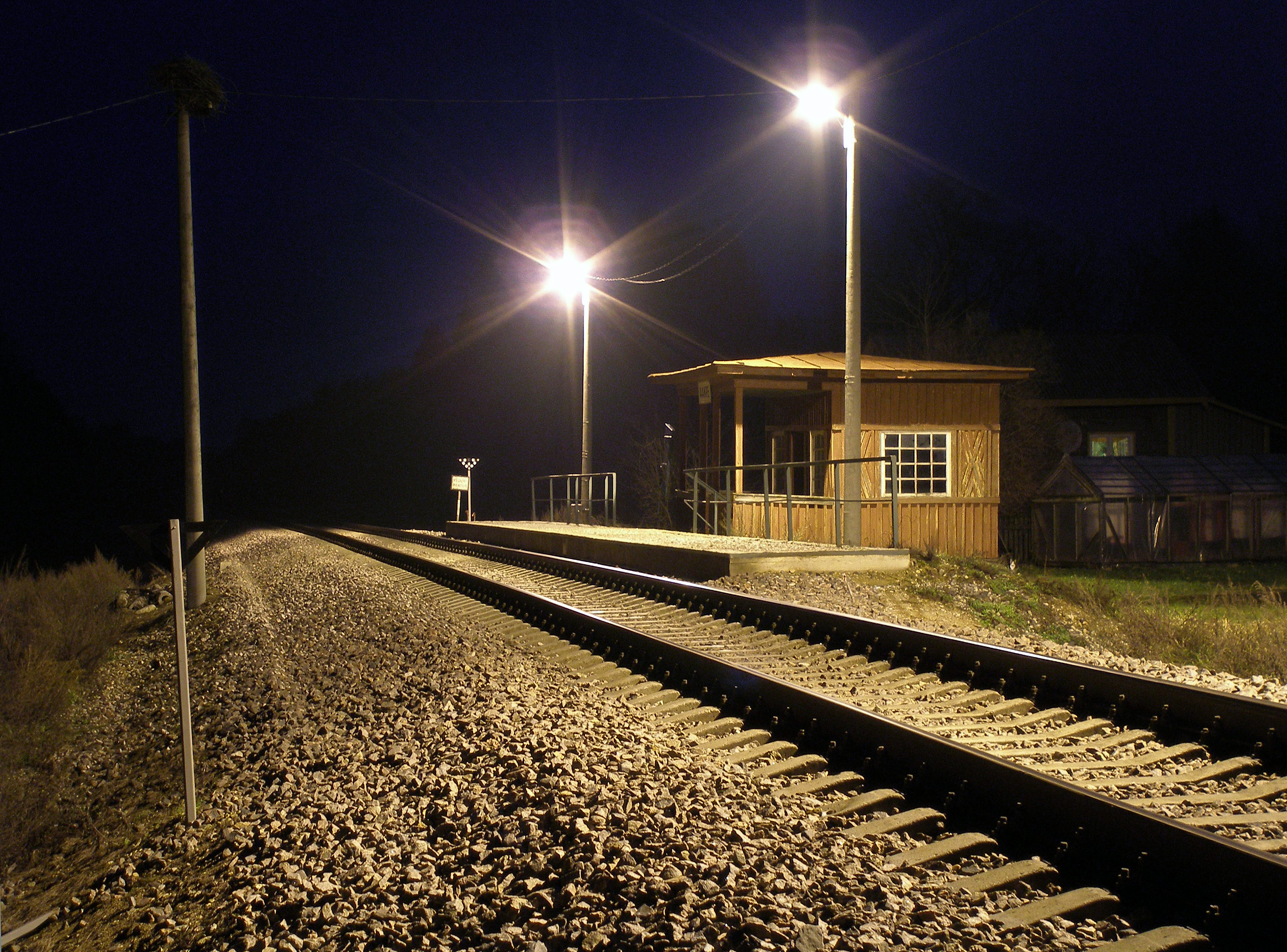 Aakre railway stop, Valga County, Estonia